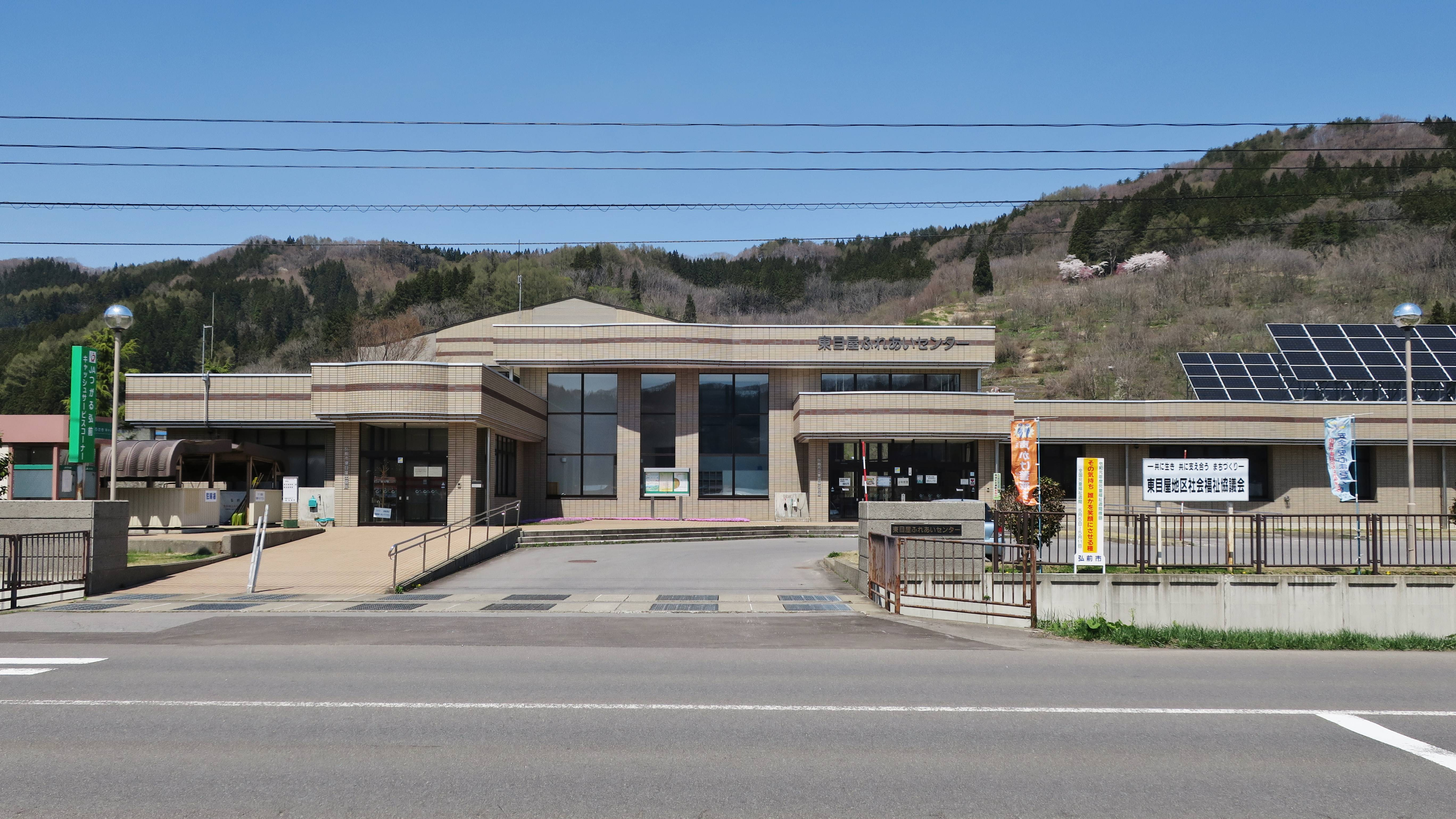 Higashimeya Fureai Center (Hirosaki, Aomori).